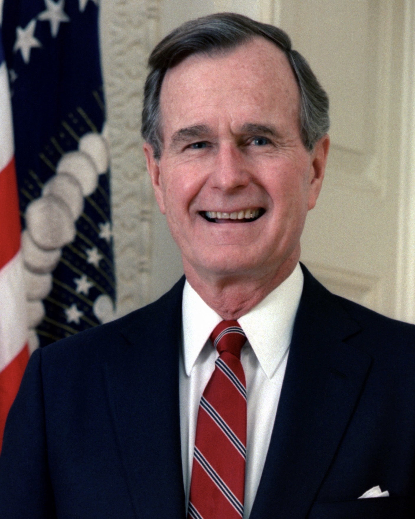 Official portrait of President George H. W. Bush